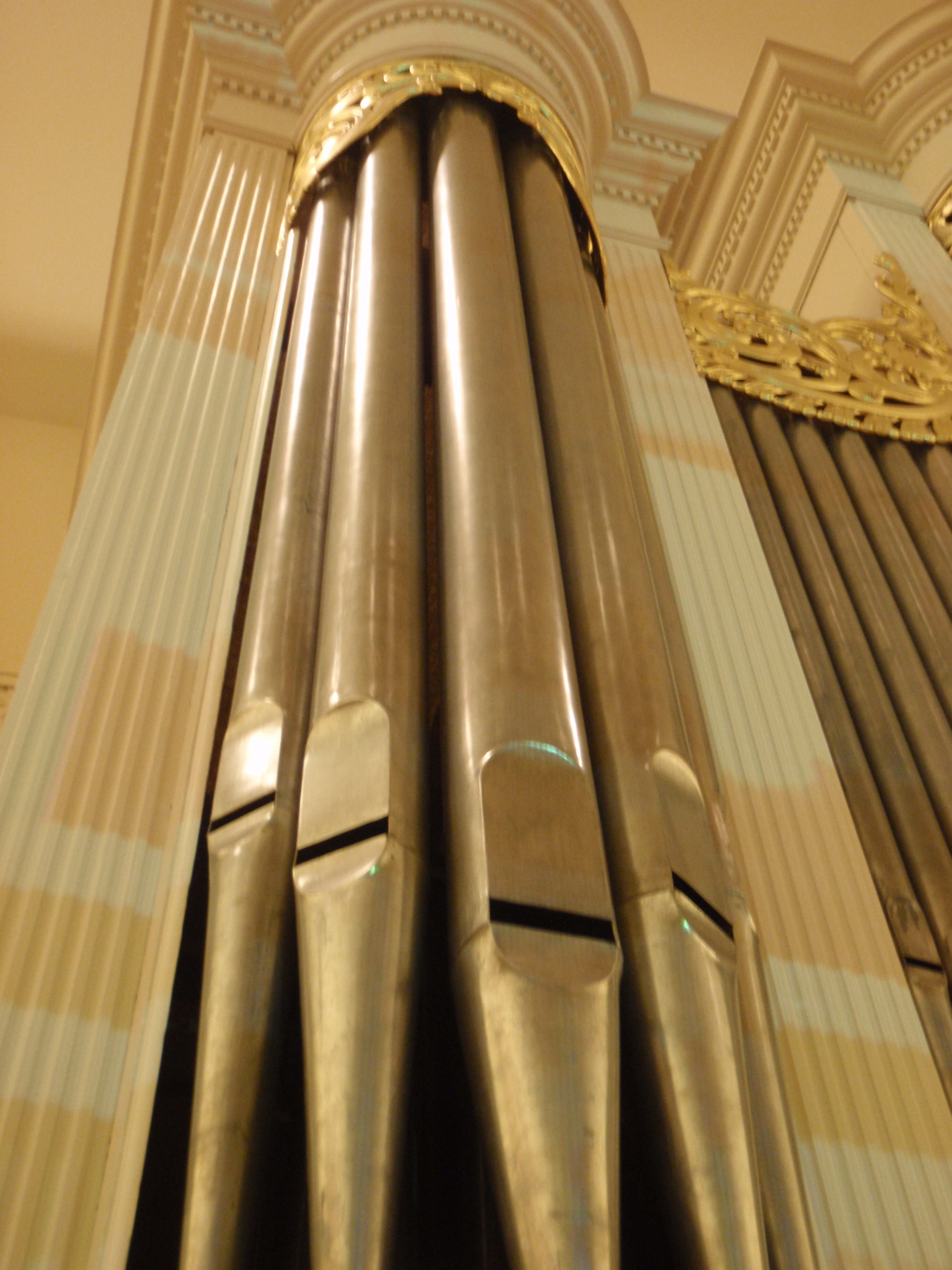 Tannenberg Organ Salem Detail